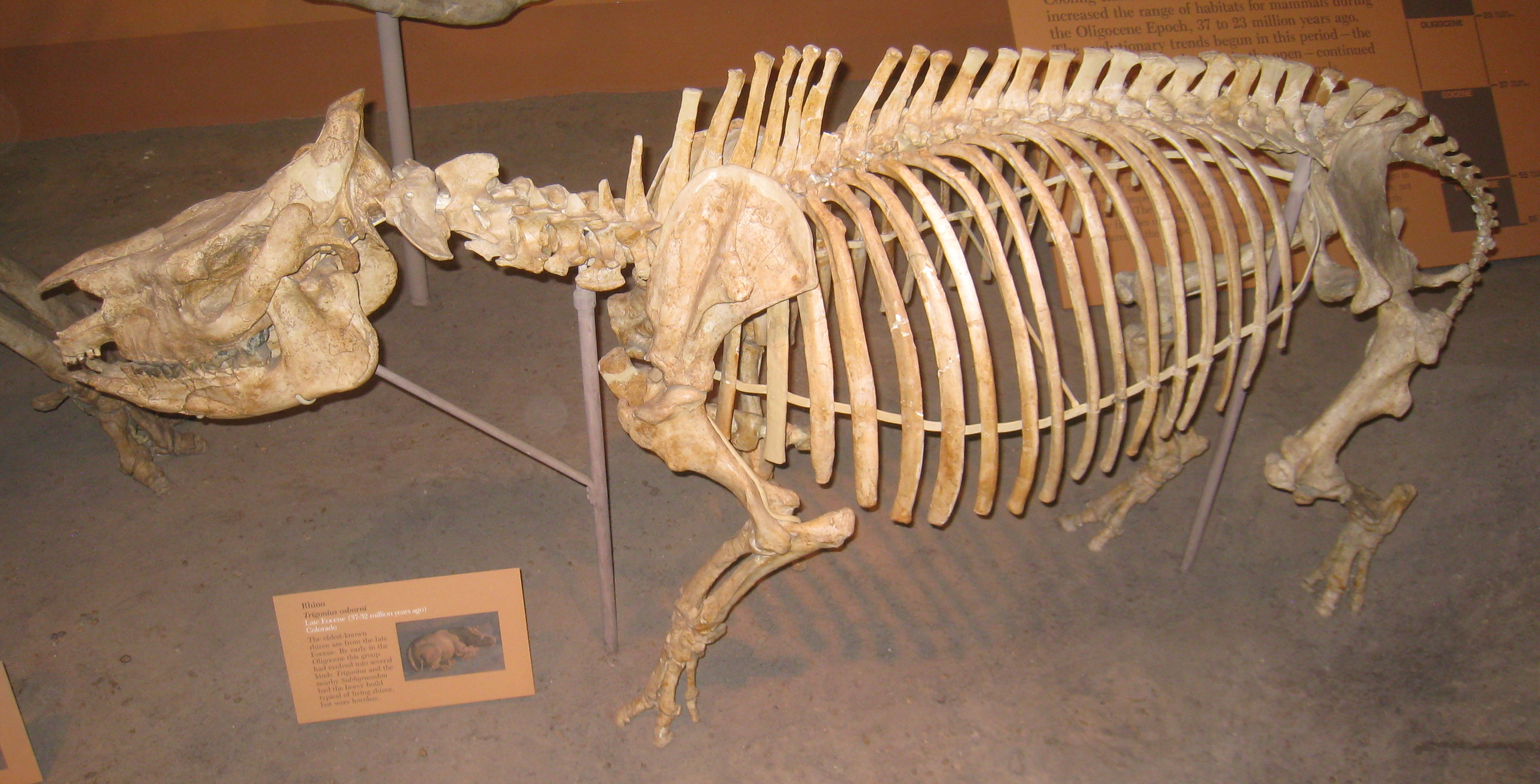 Trigonias osborni fossil specimen in the National Museum of Natural History, Smithsonian Institution, Washington, DC, USA.